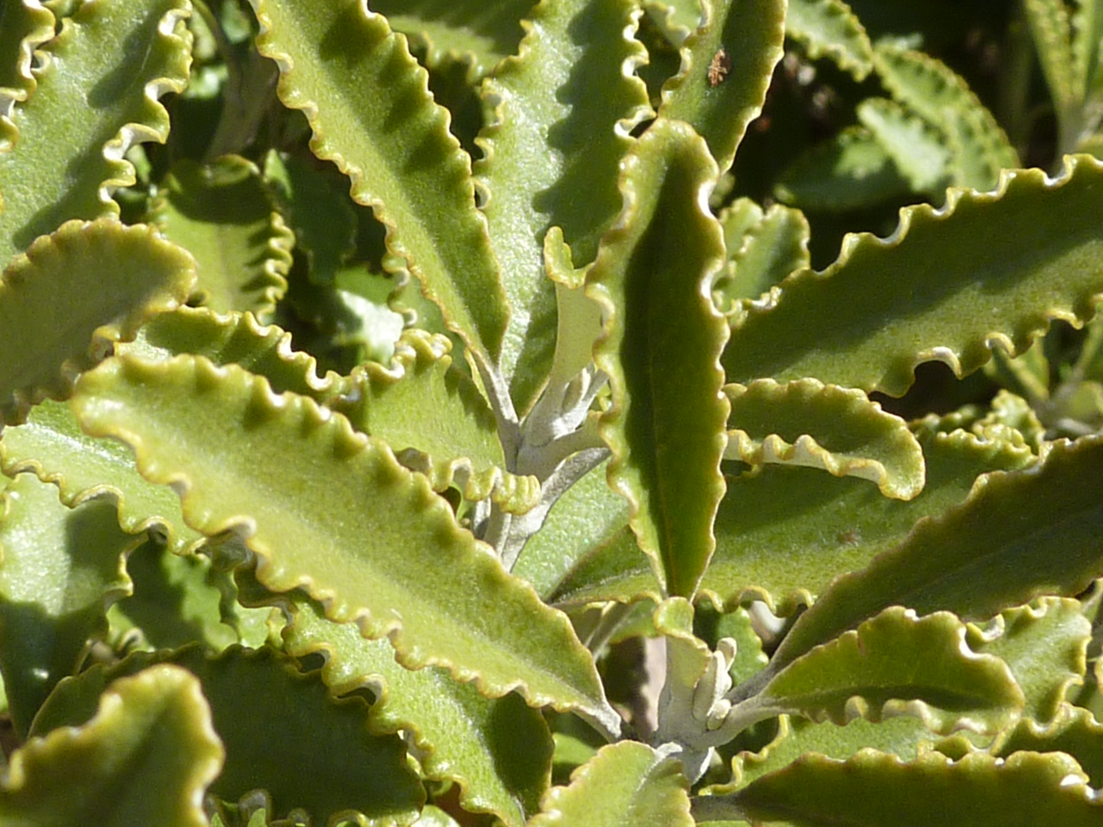 Taken in the Cambridge University Botanic Garden.